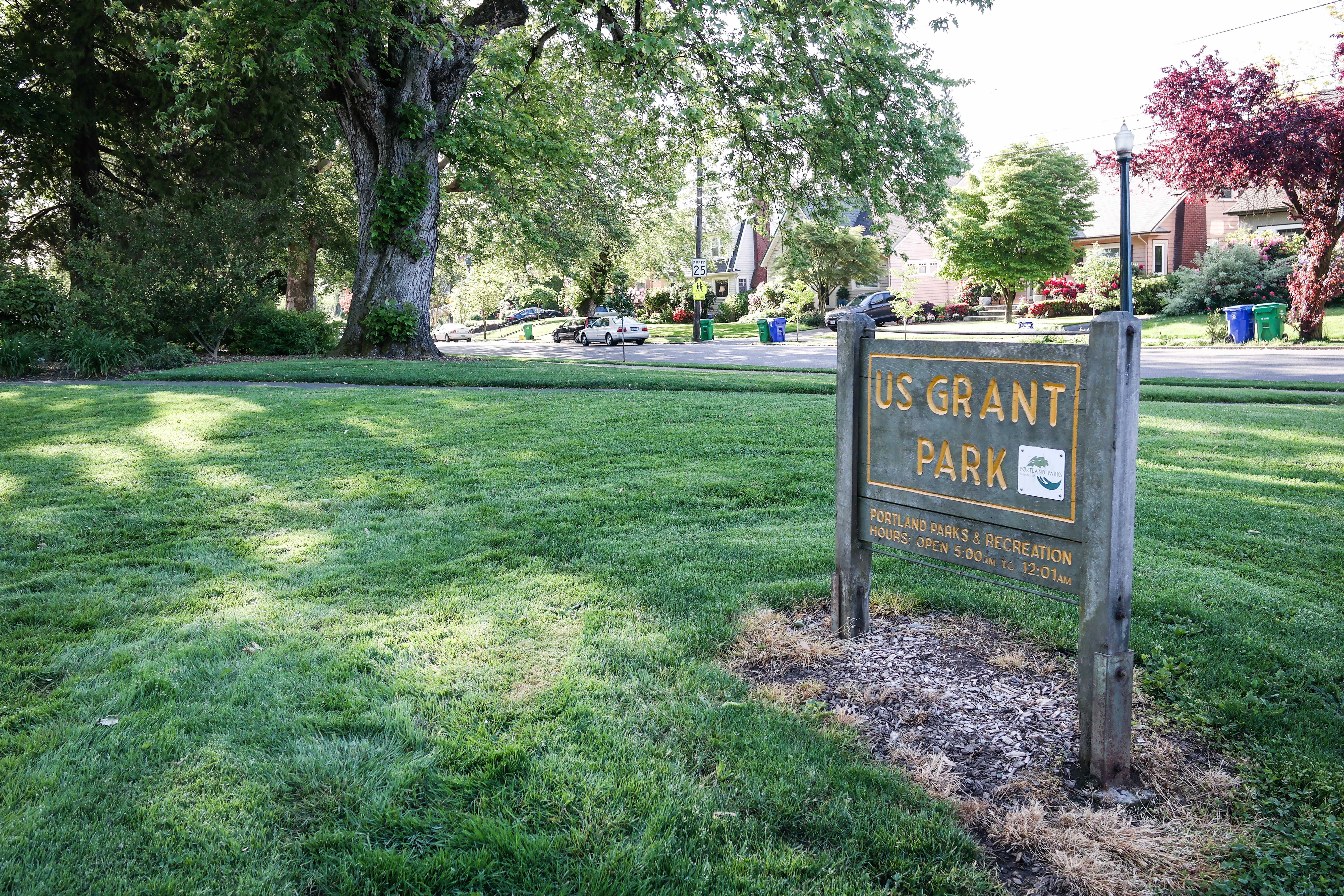 Entering Grant Park in Portland, Oregon